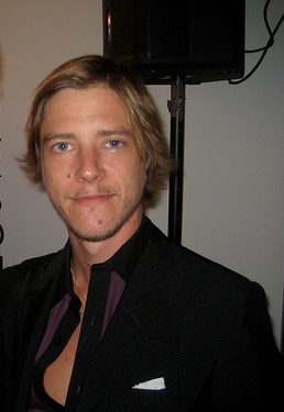 Paul Banks, 2009